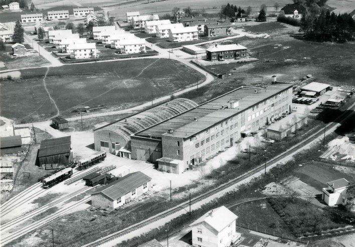 Høka, Hønefoss Karosseri- og Jernbanevognfabrikk, in Hønefoss, Norway.